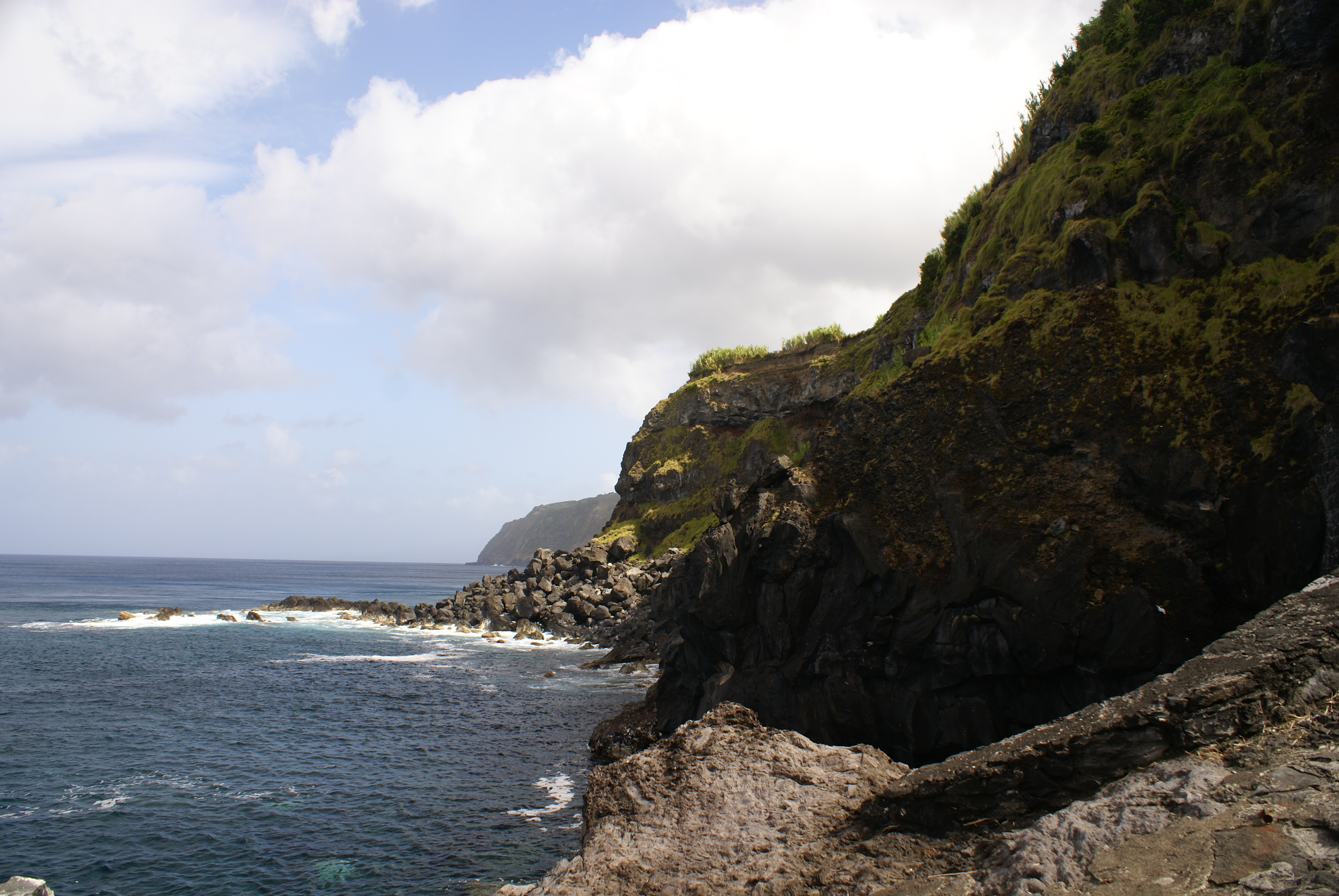 Zona costeira do Salão, concelho da Horta, ilha do Faial, Açores, Portugal